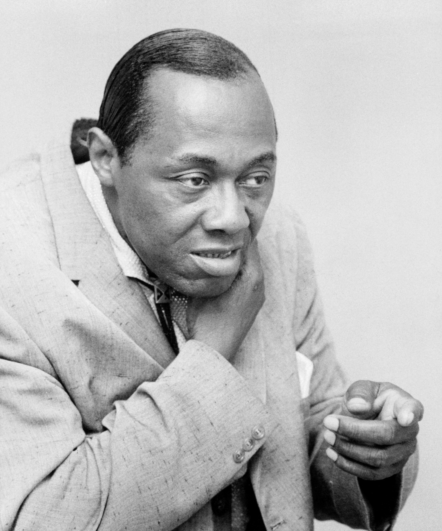 Photo of Lincoln Perry, better known as Stepin Fetchit, an American comedian and film actor.